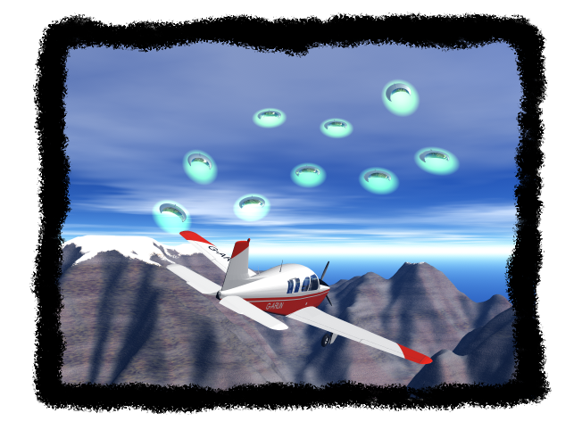 own creation